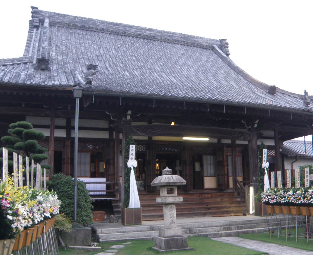 This picture is saikouji temple in Aisai city.